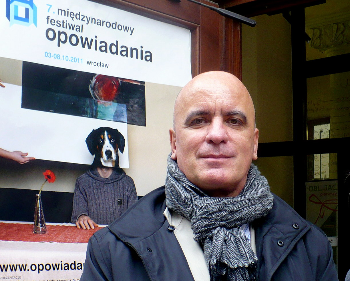 Ferenc Kontra na 7. Międzynarodowego Festiwalu Opowiadania w 2011 roku, Wrocław